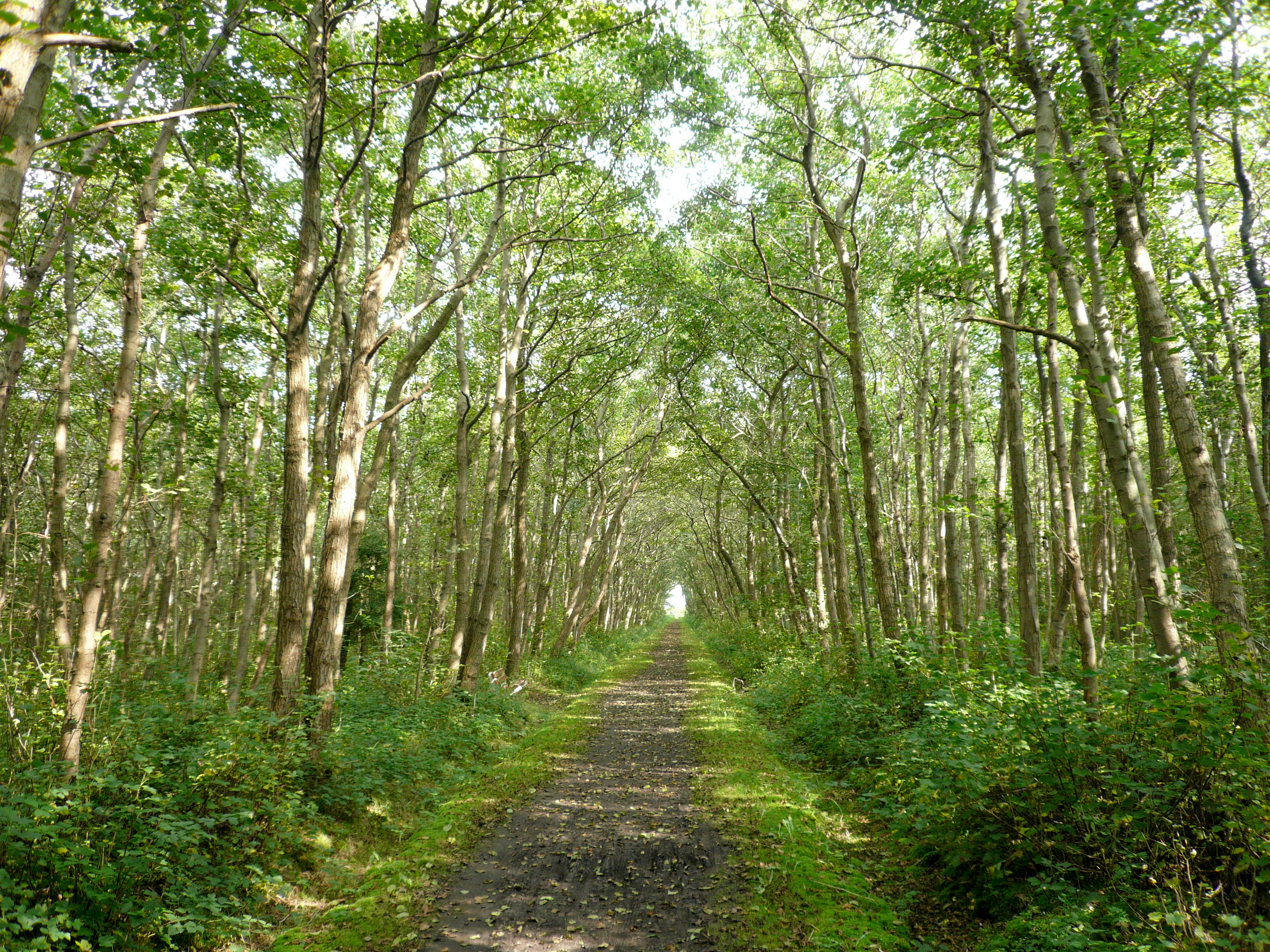 Forest on Langeoog island